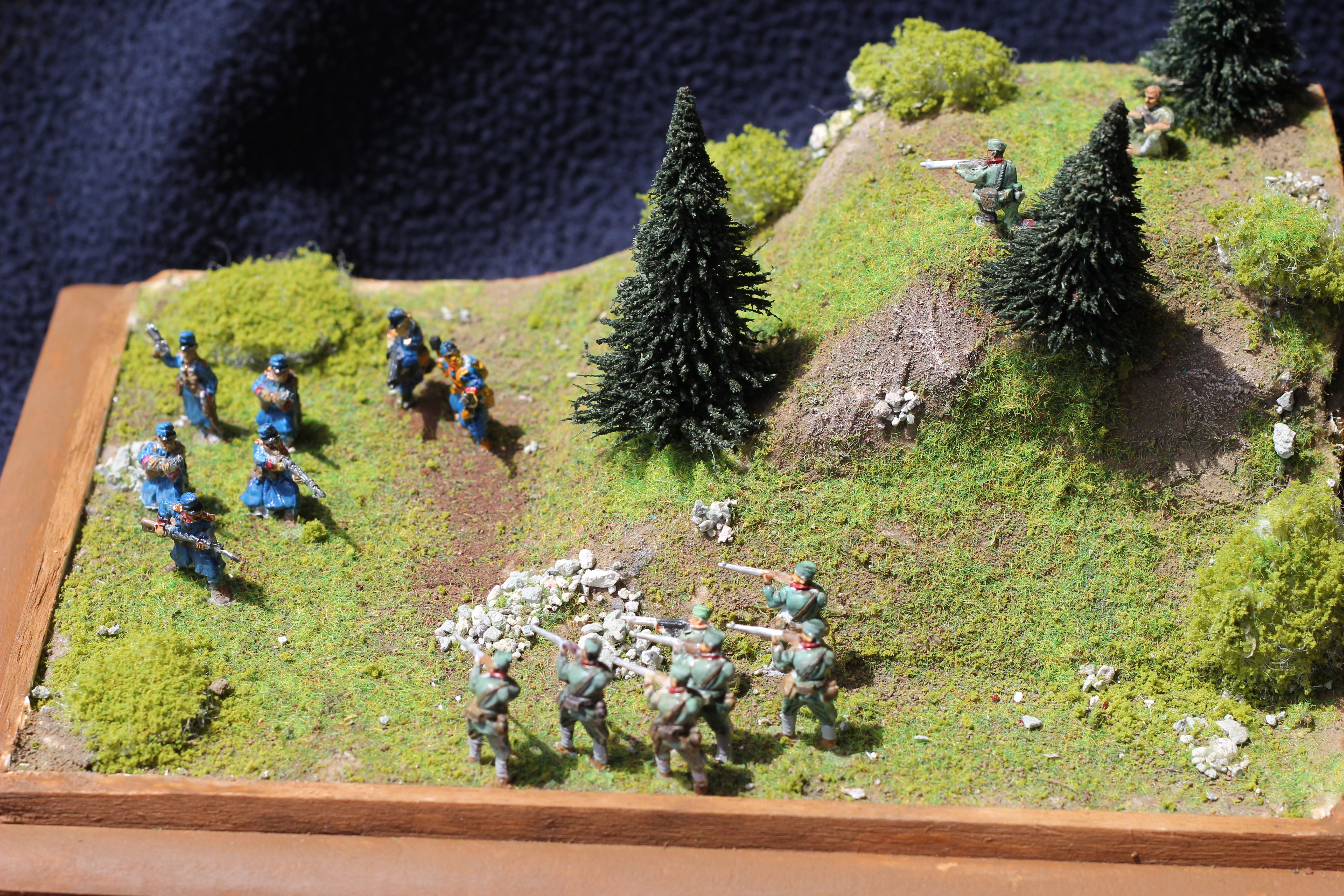 Small 1 72 scale diorama representing clash between Serbian and Austo Hungarian army at battle of Cer